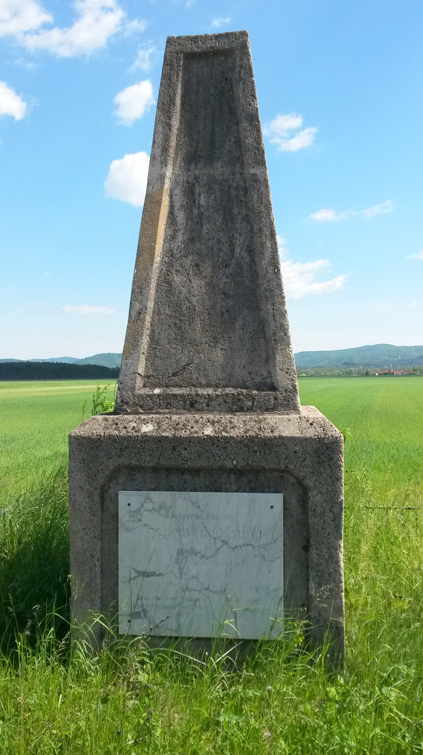 Monument marking the Southern End of Wiener Neustadt Base Line, in Neunkirchen town, Lower Austria